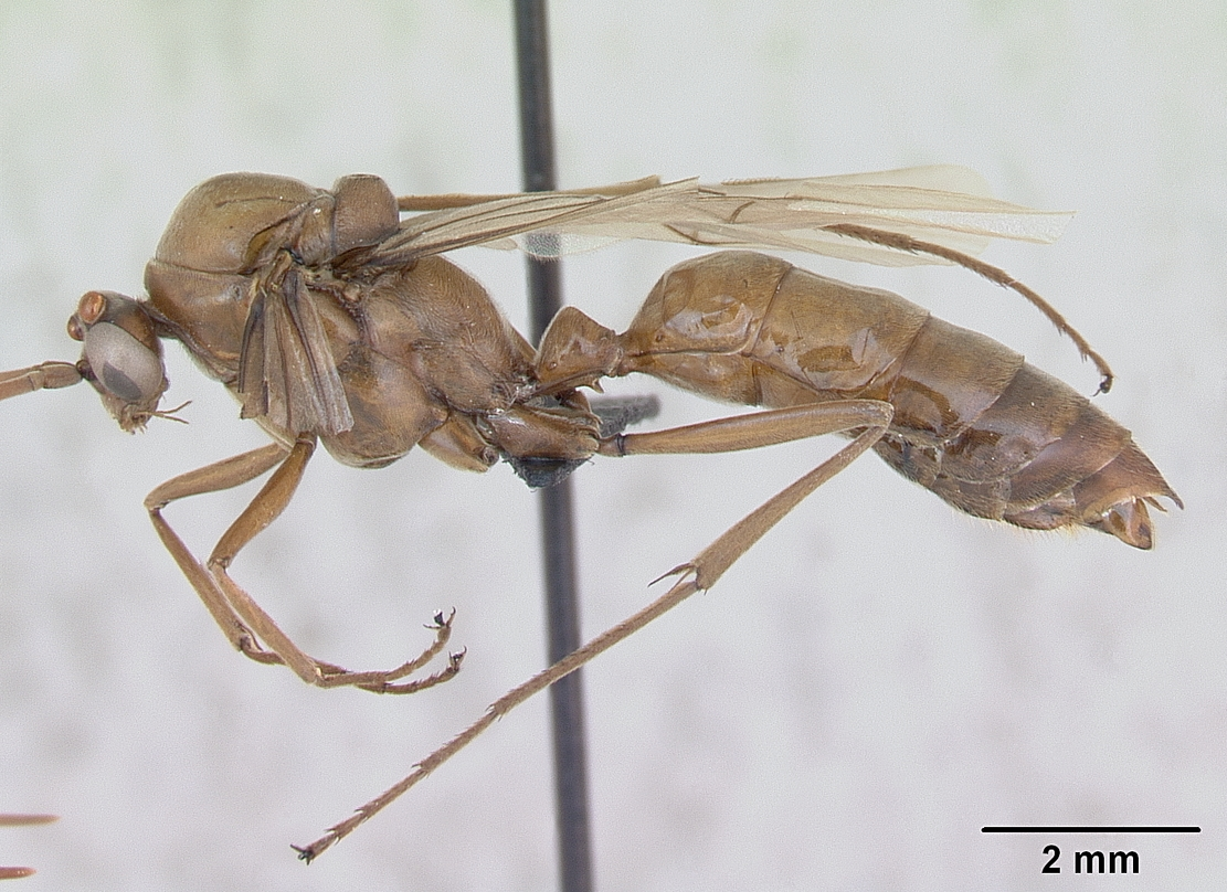 Profile view of ant Streblognathus peetersi specimen casent0173638.